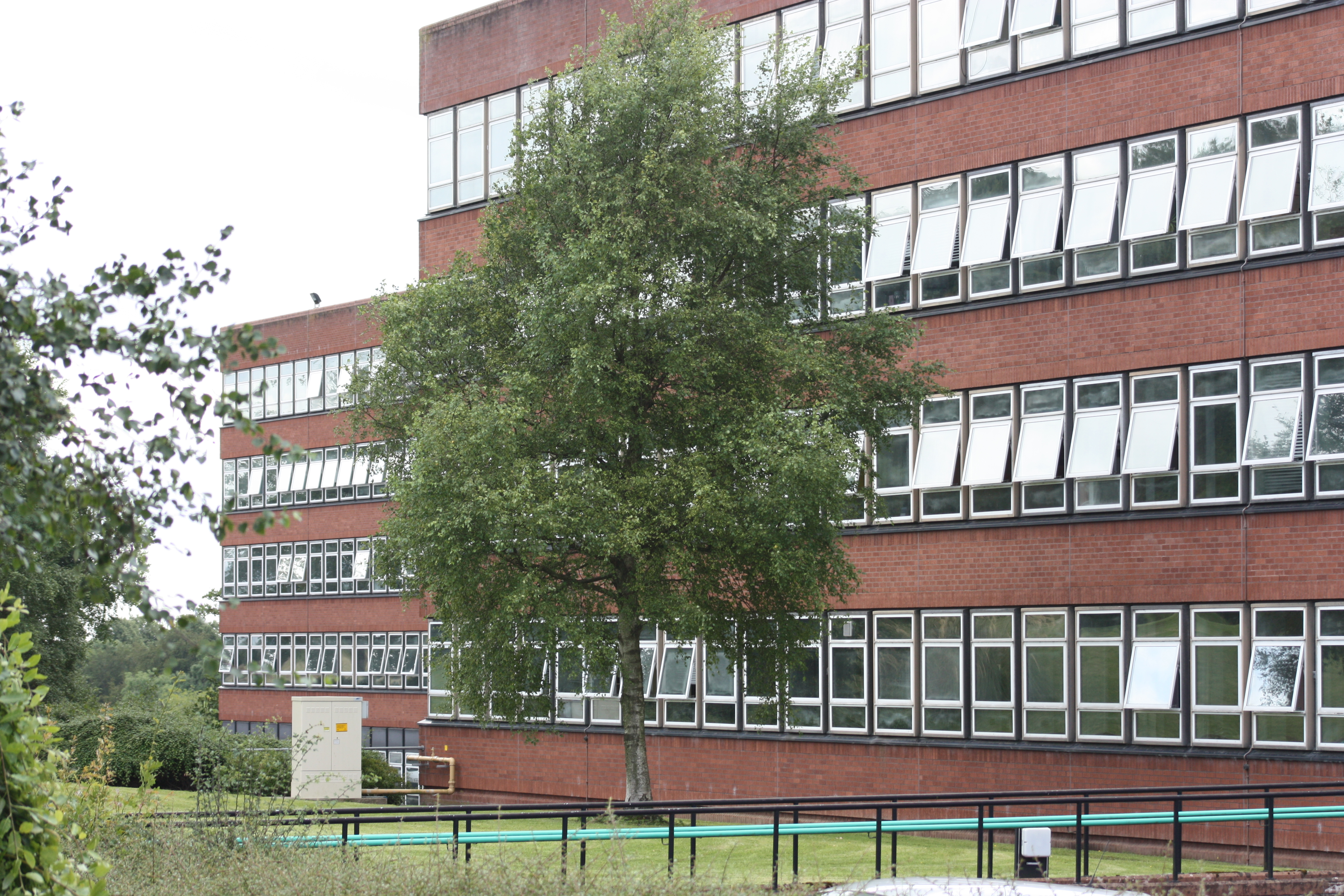 County Hall Ballymena, Galgorm Road, Ballymena, County Antrim, August 2009